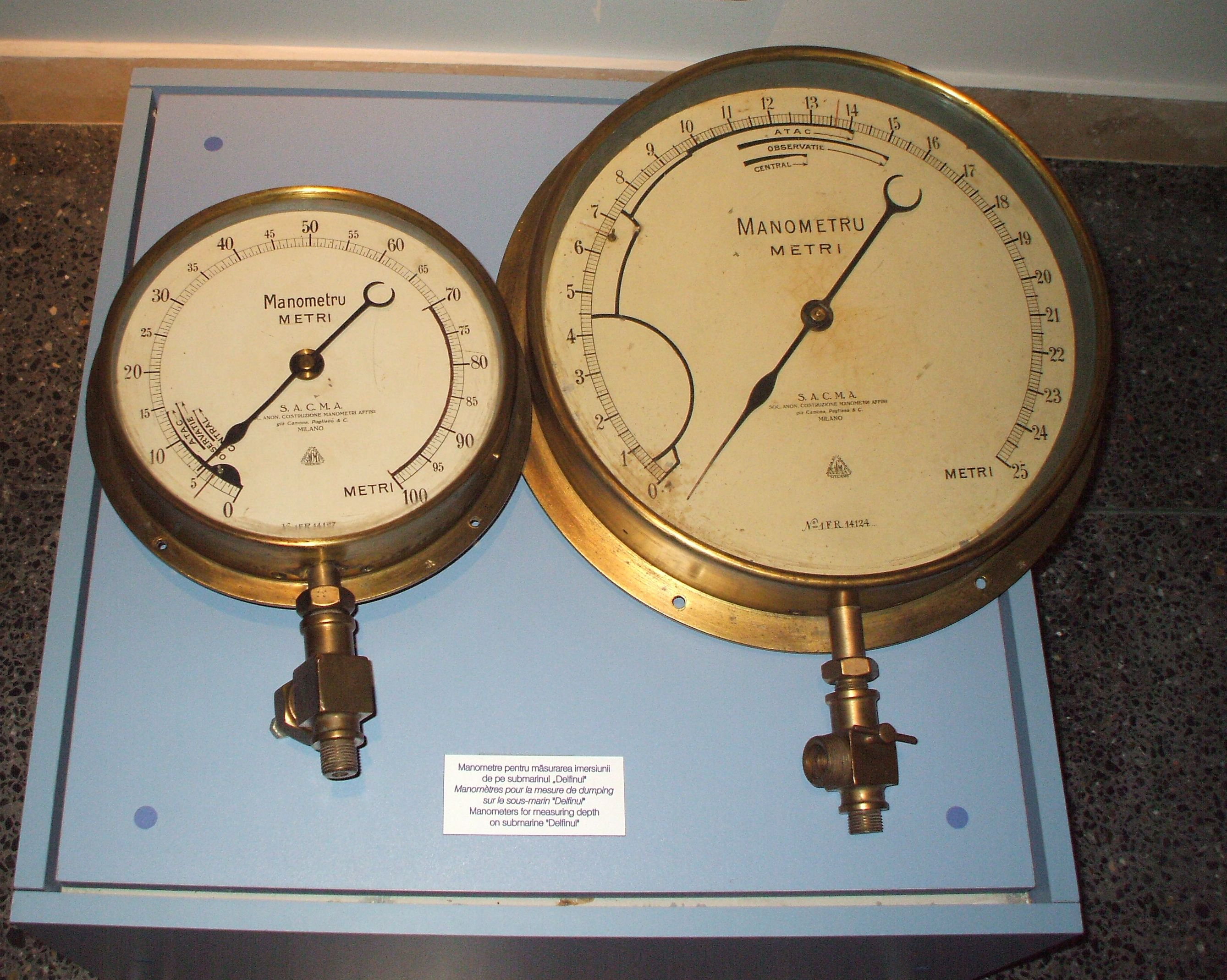 Manometers of the Delfinul submarine.